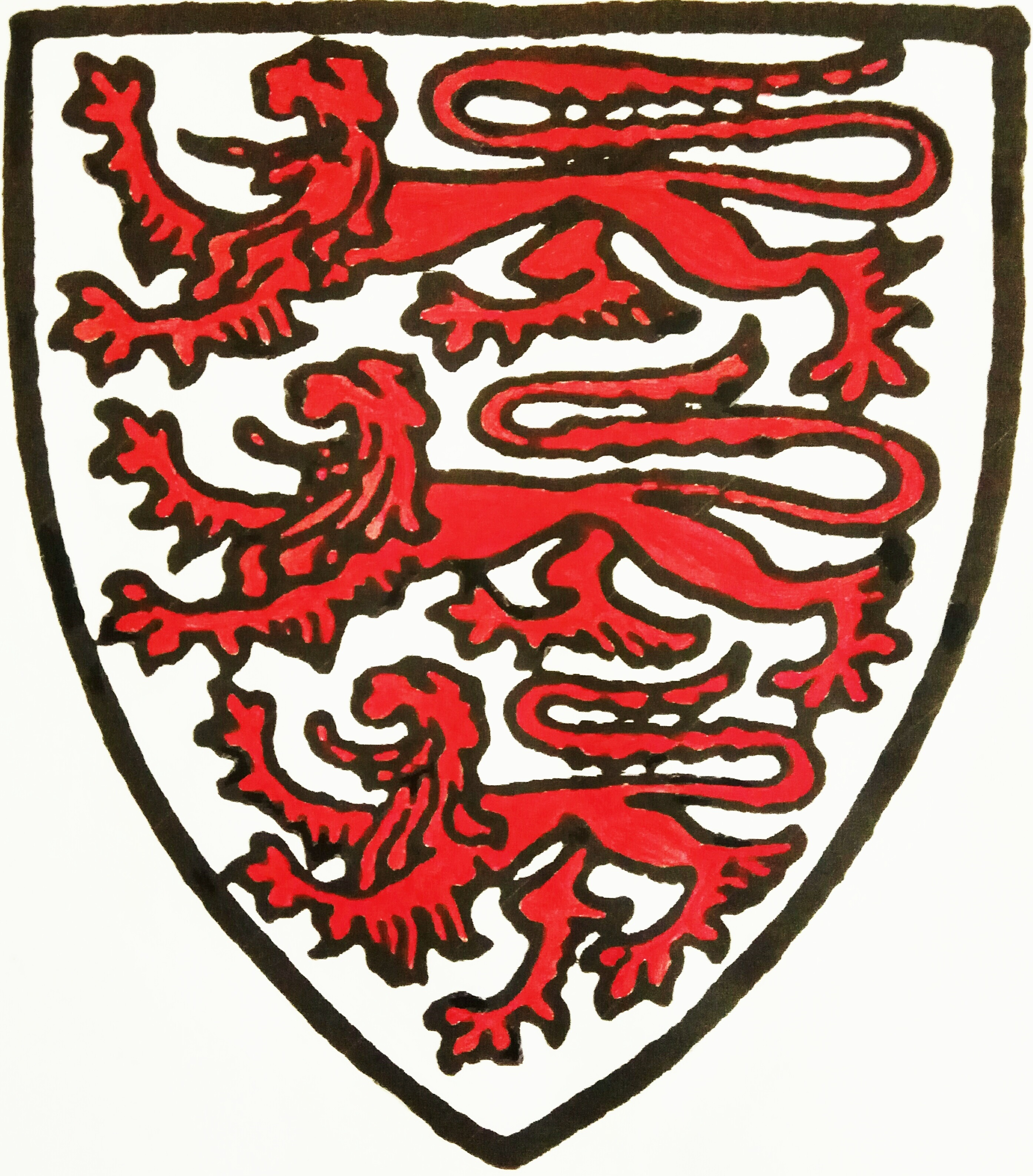 The Coat of Arms of the McGrath of Ulster (circa 15th Century). Three lions passant gules, as recorded in Irish Pedigrees or The Origin and Stem of the Irish Nation by John O'Hart (1876).